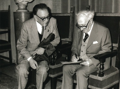 Italian futurist painters Enzo Mainardi (E.M.), left, and Francesco Cangiullo in Rome's Capitol (F. T. Marinetti celebrations in 1976, after one hundred years from birth date)